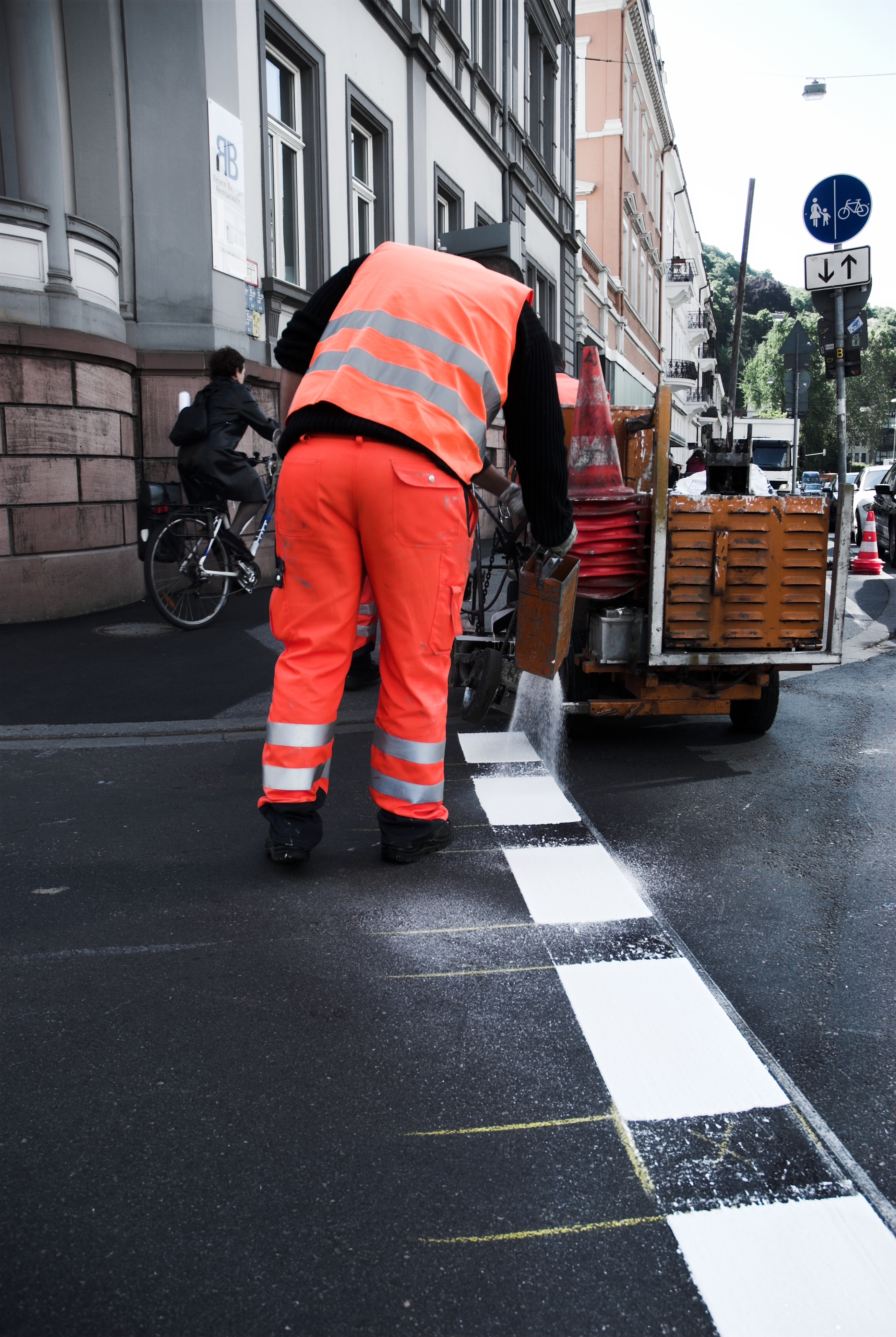 Perfusion with reflective beads.